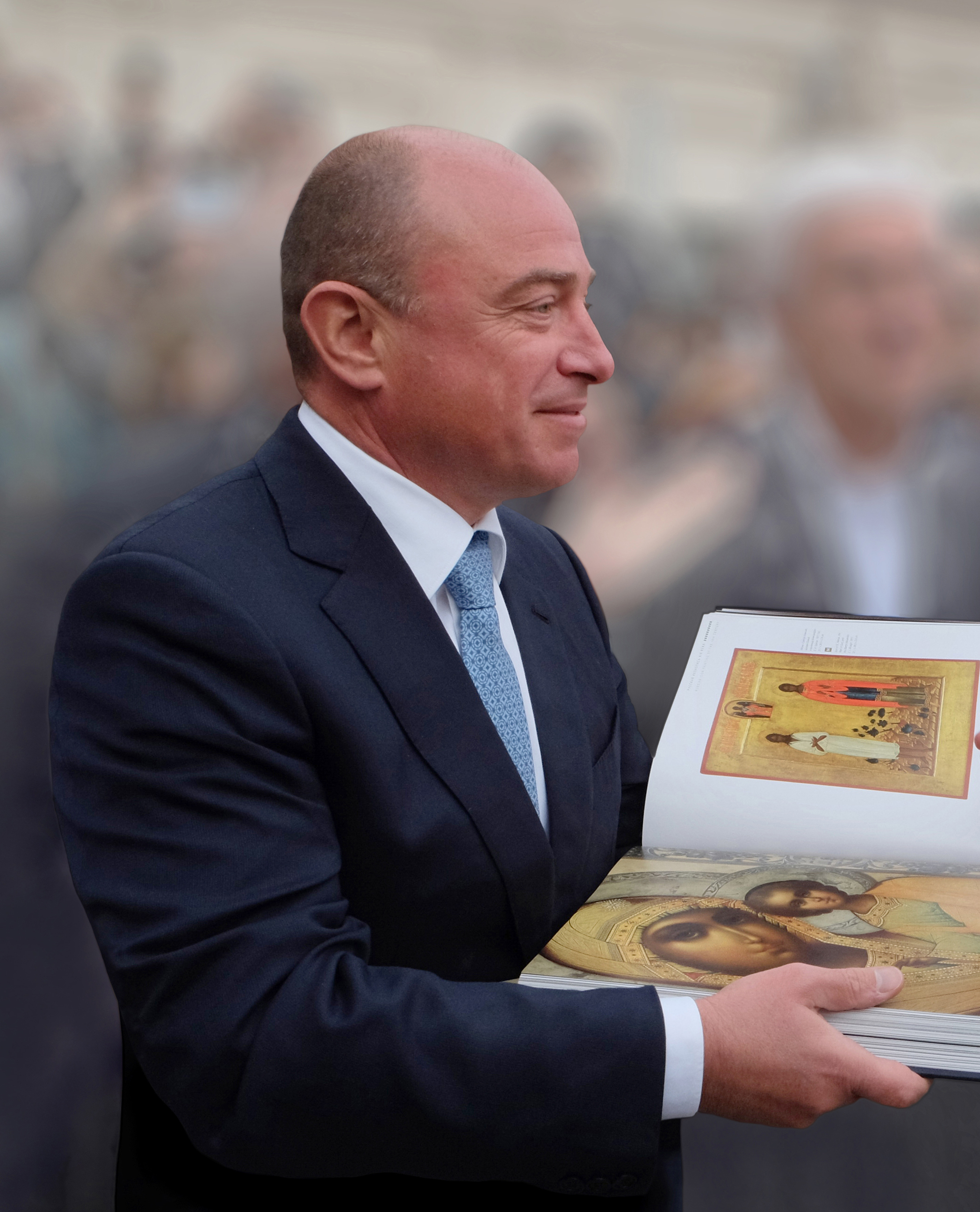 Mikhail Abramov - Russian benefactor and businessman, founder of the Museum of the Russian icon in Moscow.